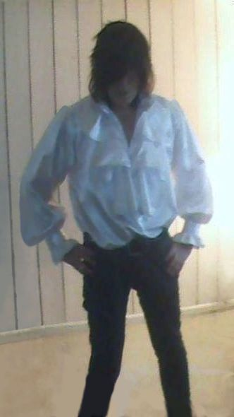 A man wearing a ruffled white satin poet blouse. England, 2011.